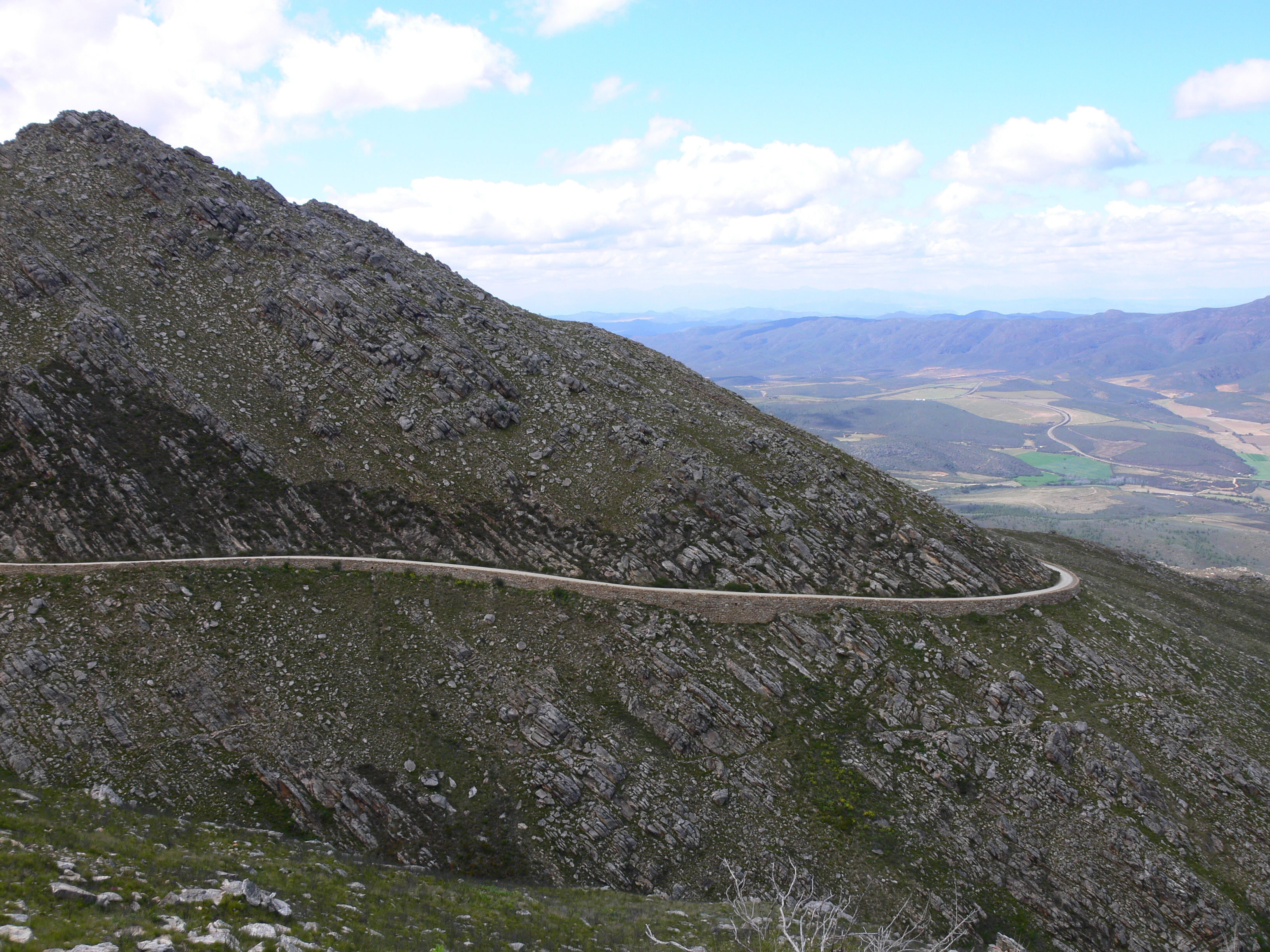 Gravel Road on Swartberg Pass, near Oudtshoorn, Western Cape, South Africa